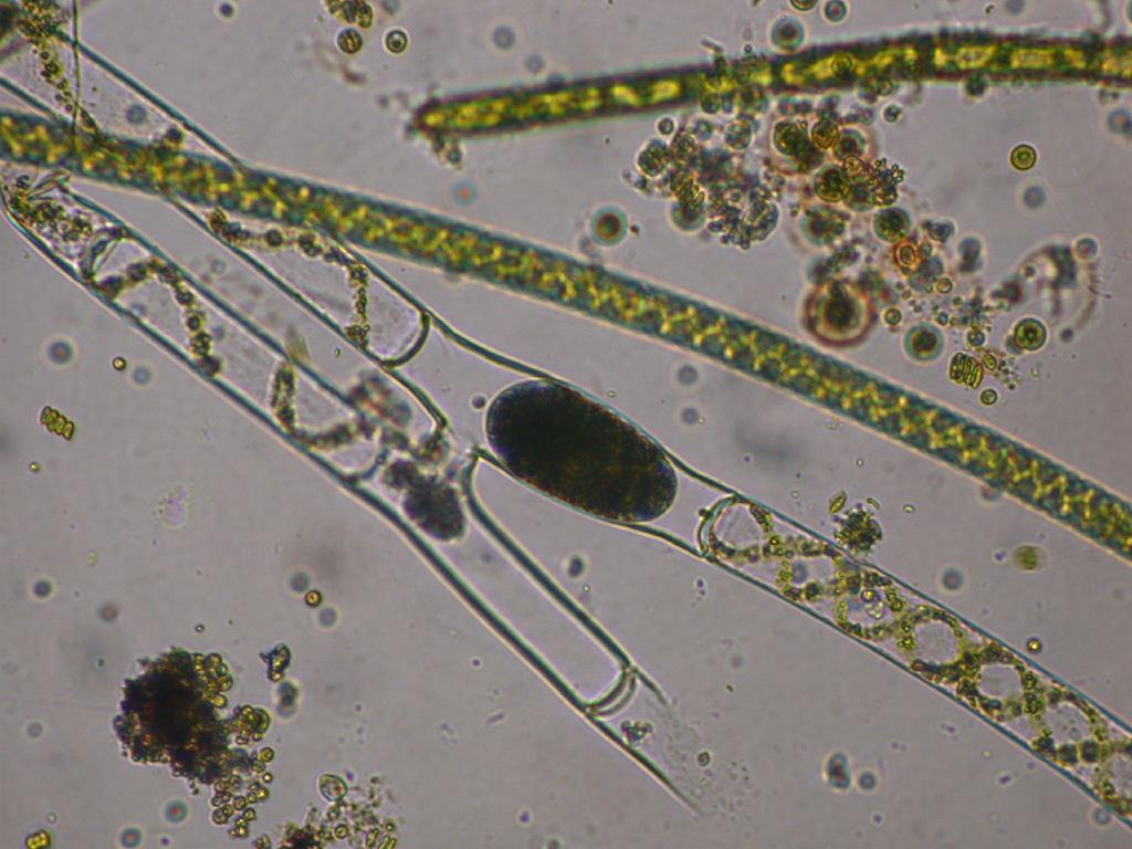 Spirogyra sp.(Zygnematales) Zygote Date;2006,07,29,Tanabe City,Wakayama Pref. Japan